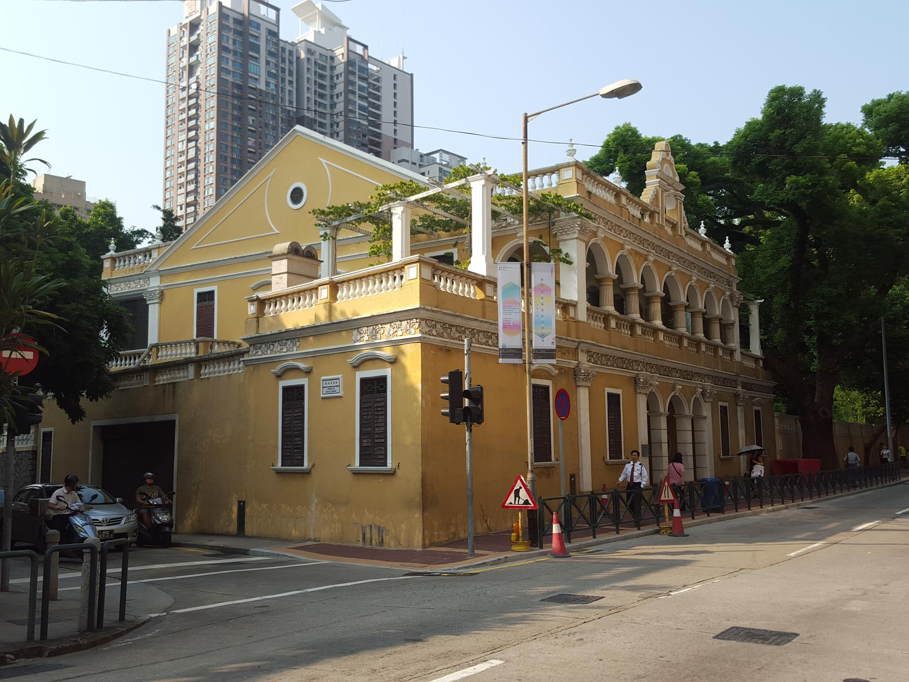 Macau Tea Cultual Museum